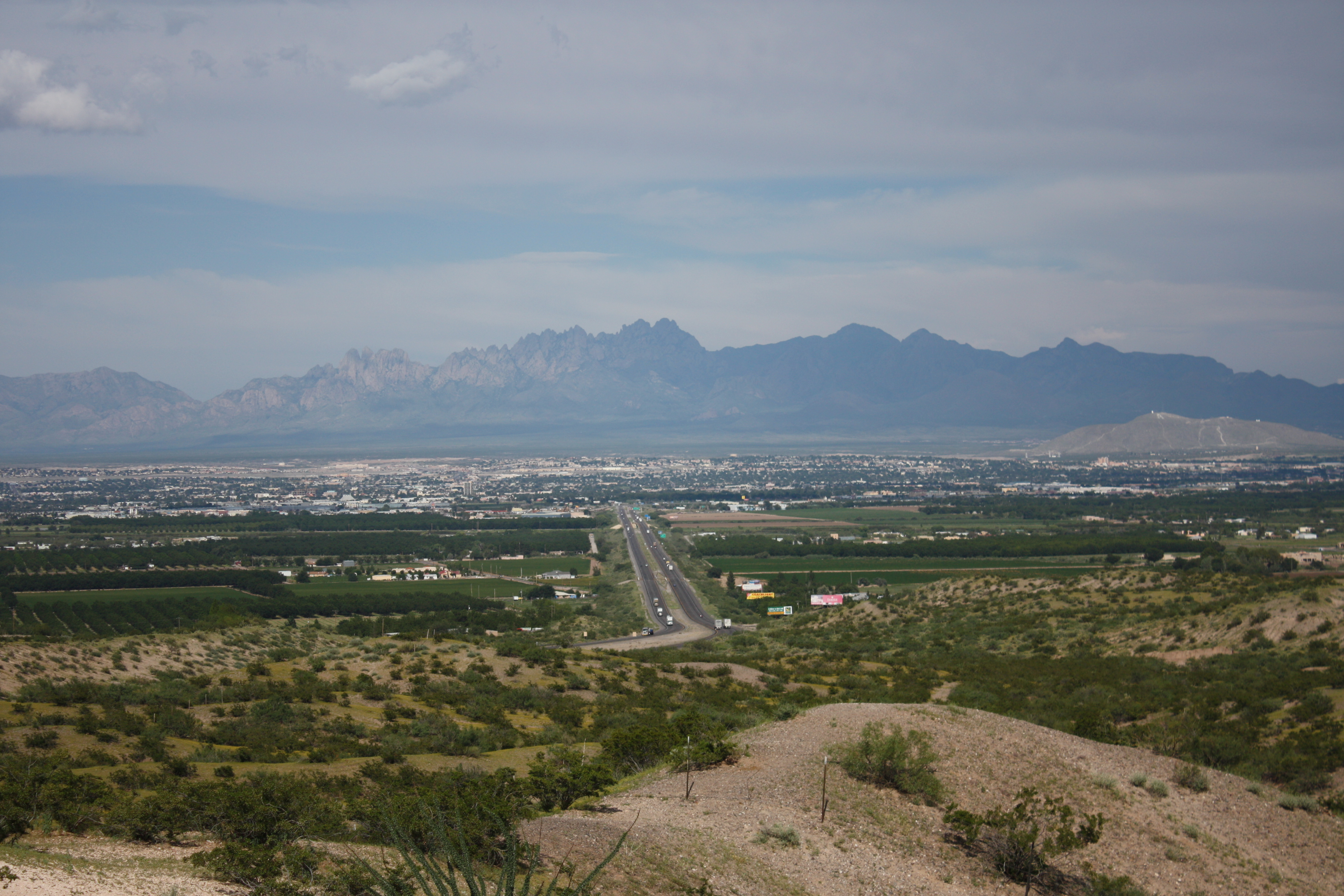 Las Cruces, New Mexico and Organ Mountains in background